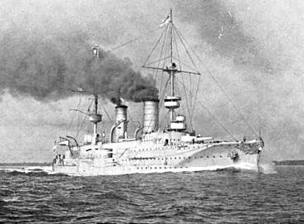 From: Cassier's Magazine (New York City: The Cassier Magazine Company) Vol 25. 1903. Page 4